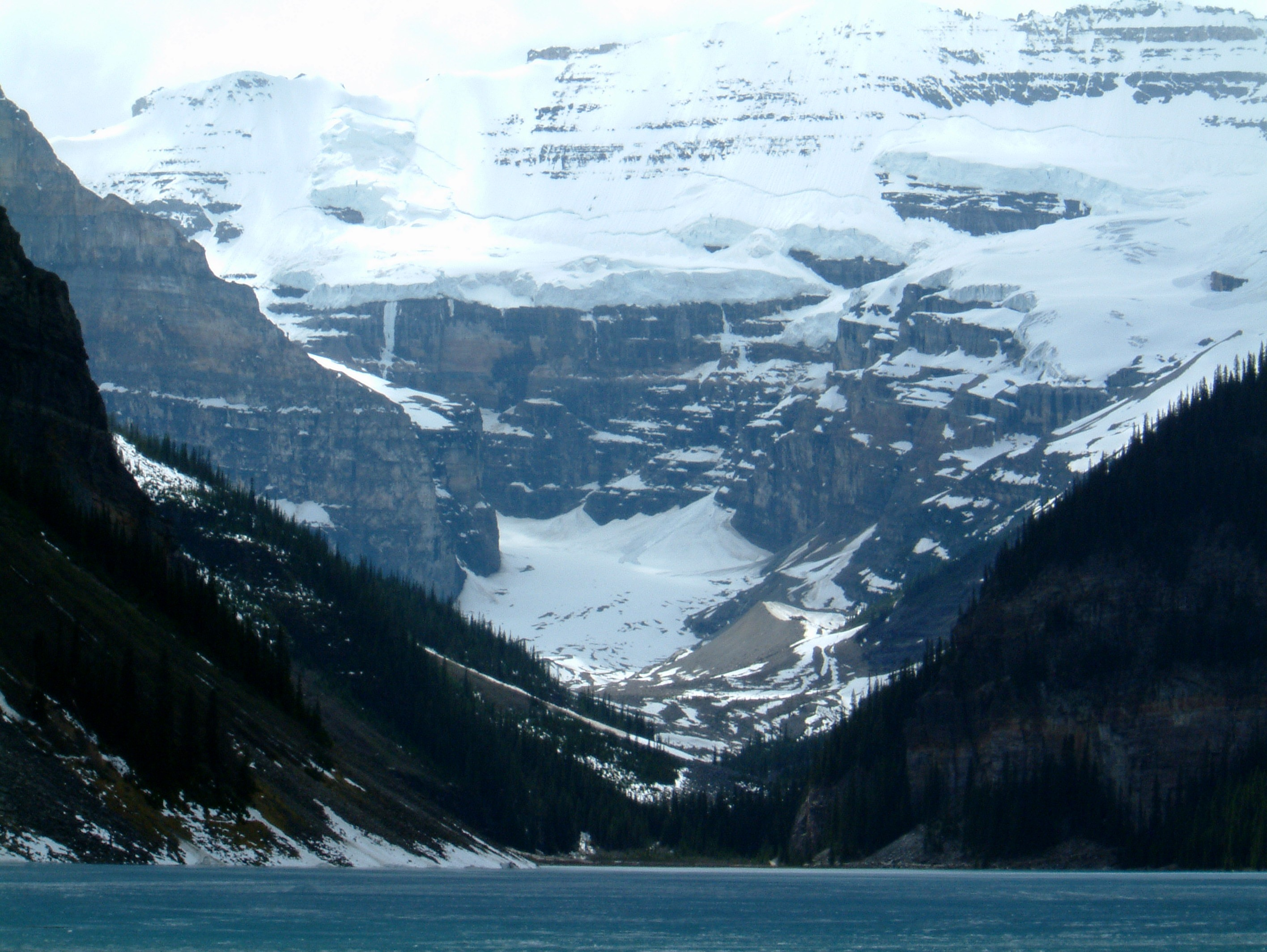 The Victoria Glacier above Lake Louise in Banff National Park, Alberta, Canada